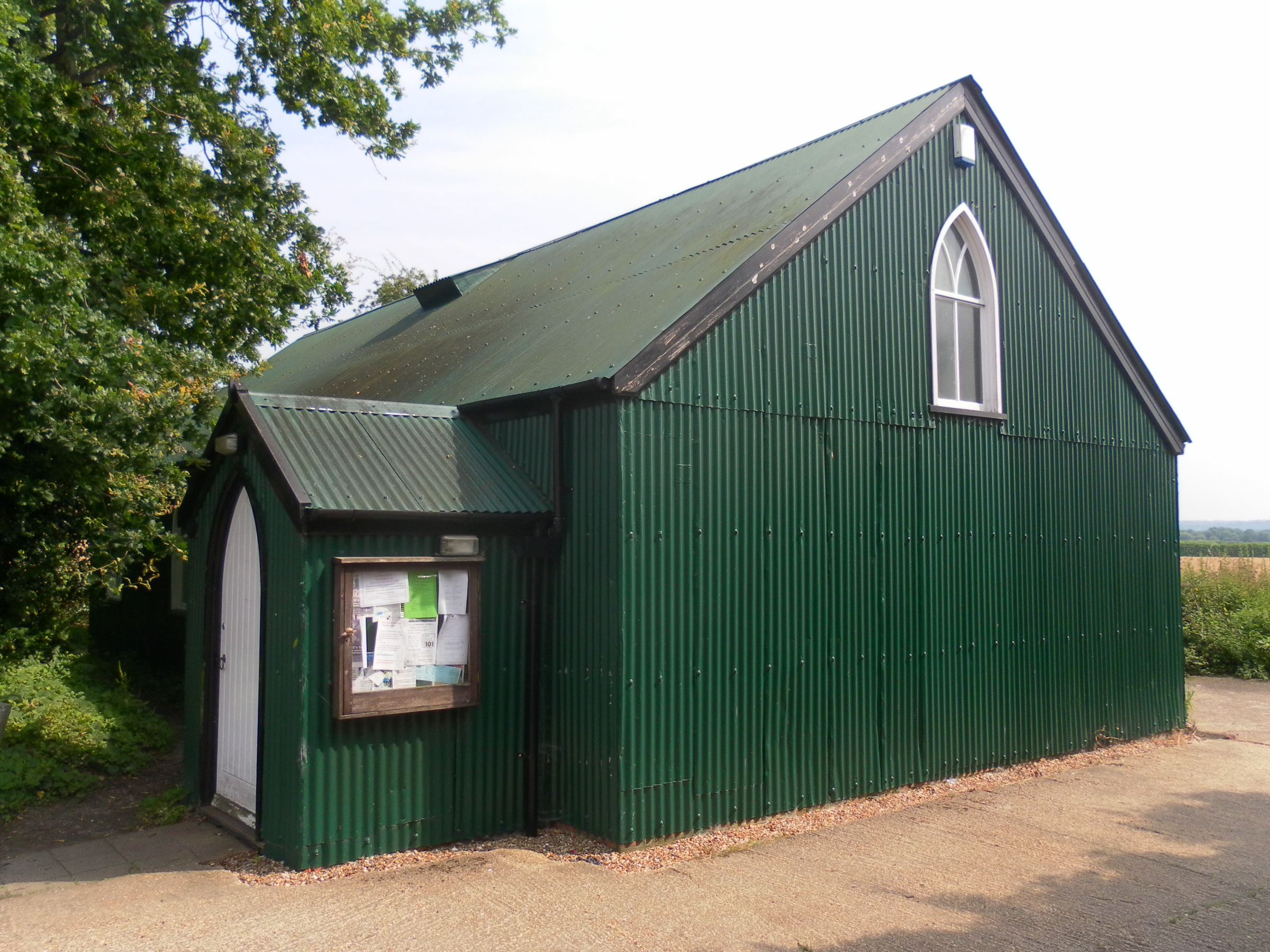 Golden Green Mission Church, Three Elms Lane, Golden Green, Borough of Tonbridge and Malling, Kent, England. A mid-1910s tin tabernacle serving the tiny hamlet of Golden Green. Listed at Grade II by English Heritage (NHLE Code 1070418)